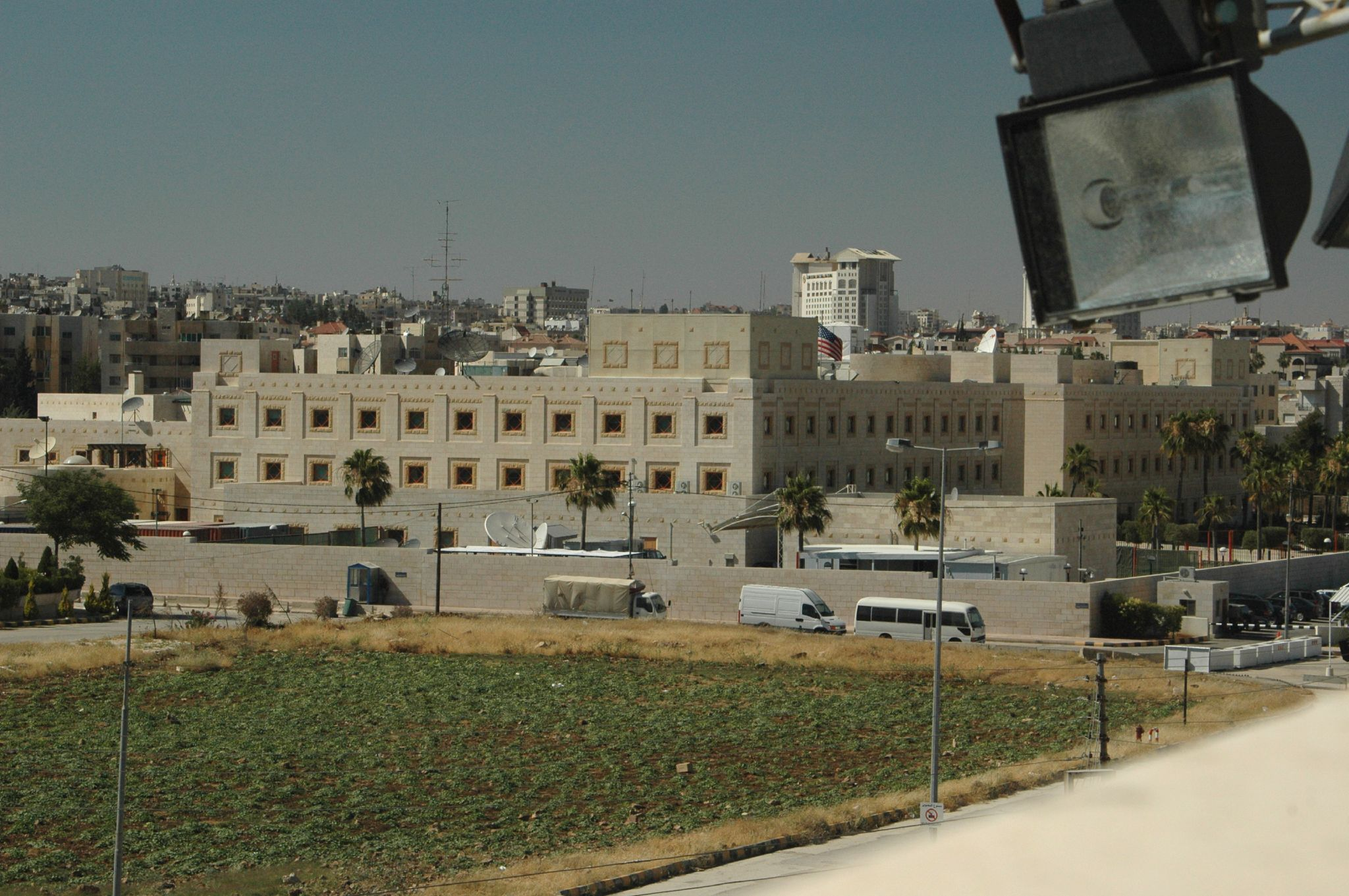 This photo doesn't do justice to the full expanse of this facility, of which all photography within 50 feet is forbidden, and which is guarded by tanks.